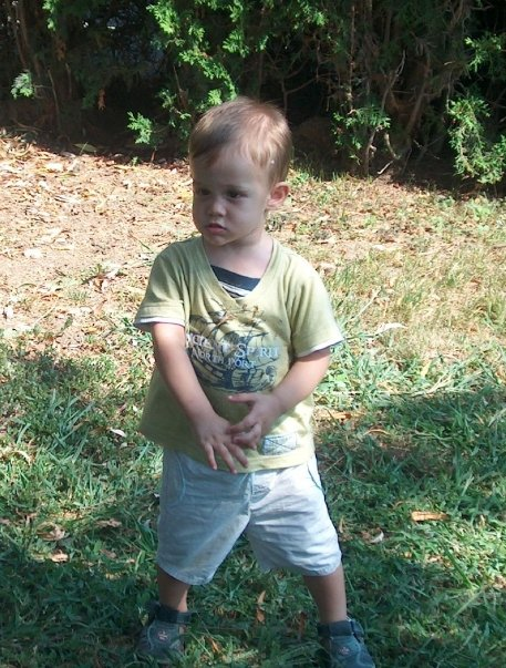 Two Years Old Romanian Boy